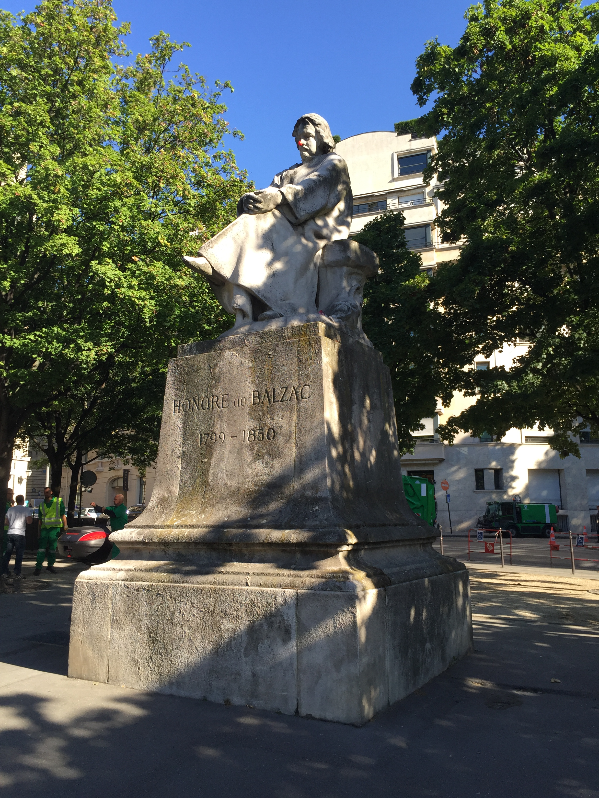 This photograph was taken with an iPhone 6